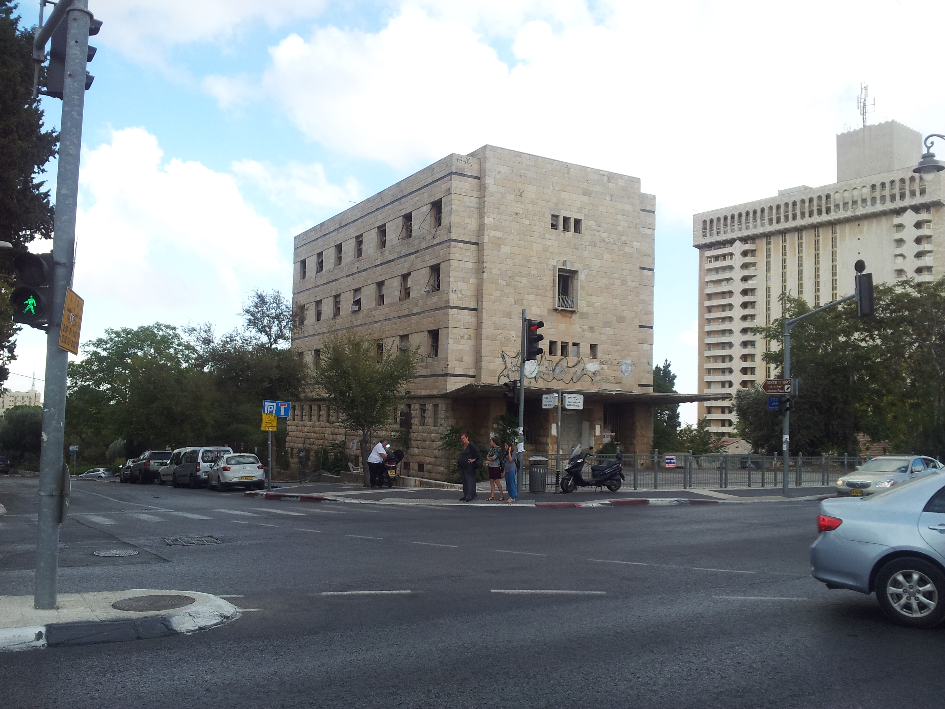 Jerusalem, corner of King George street and Ha-Rav Avida street, solel-bone house & plaza hotel